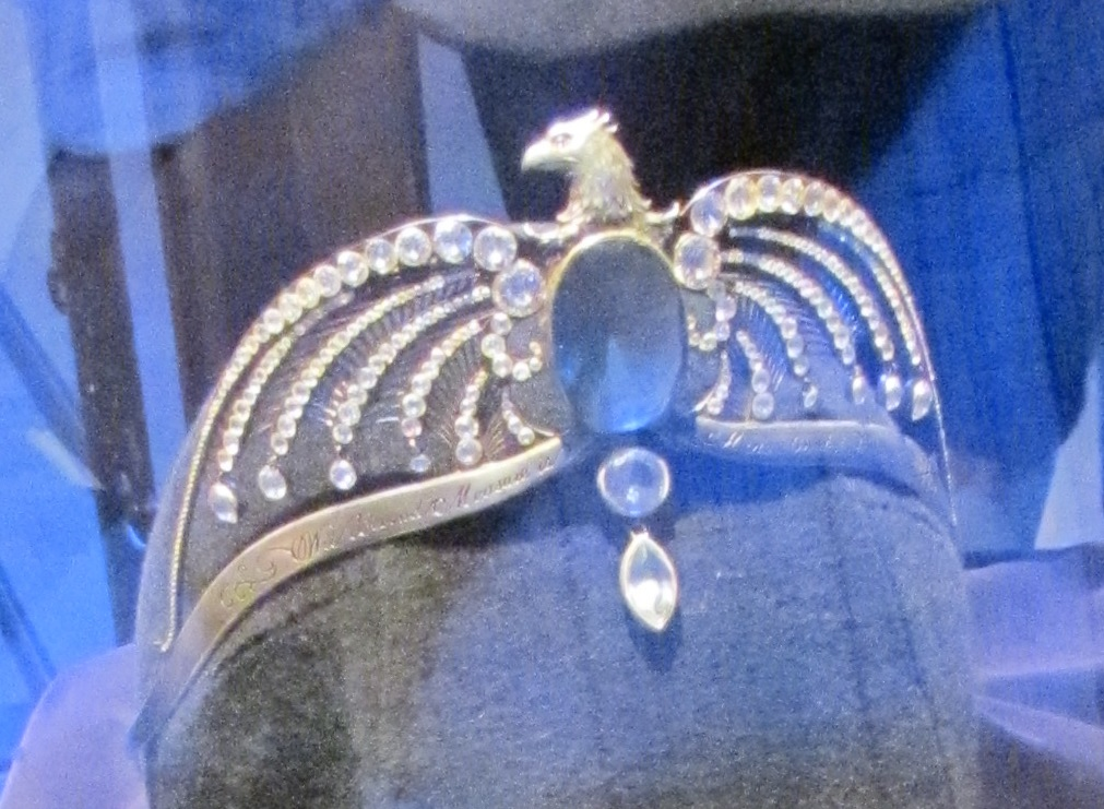 One of the last horcruxes